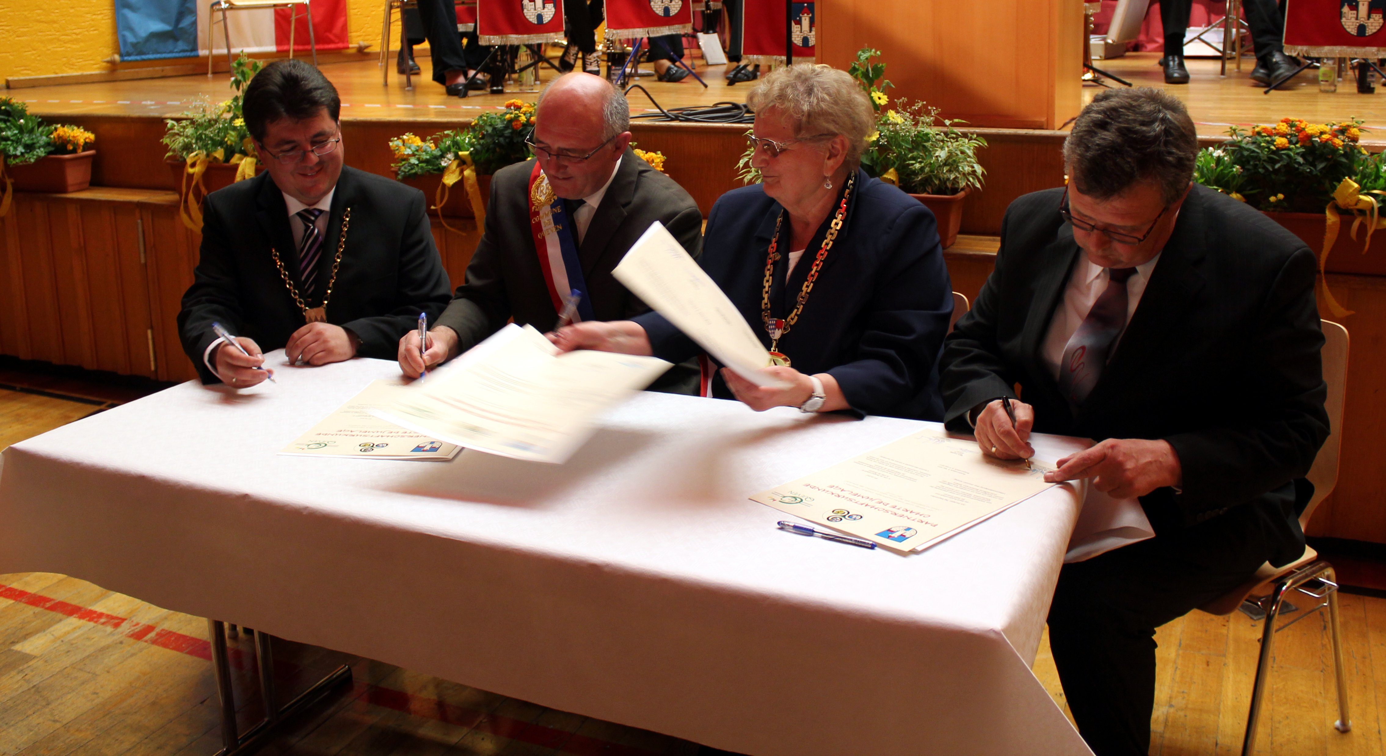 Signing/Re-signing of the Twin-Towns-Deed between Burgkunstadt-Quéven and Altenkunstadt-Weismain-Quéven. From left to right: Udo Dauer (1. Mayor of Weismain), Marc Cozilis (1. Mayor of Quéven), Brigitte Konrad (3. Mayor of Burgkunstadt), Georg Vonbrunn (1. Mayor of Altenkunstadt)